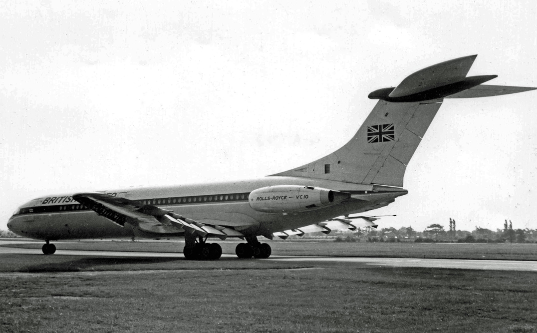 British United Vickers VC-10 G-ATDJ ay Manchester Airport